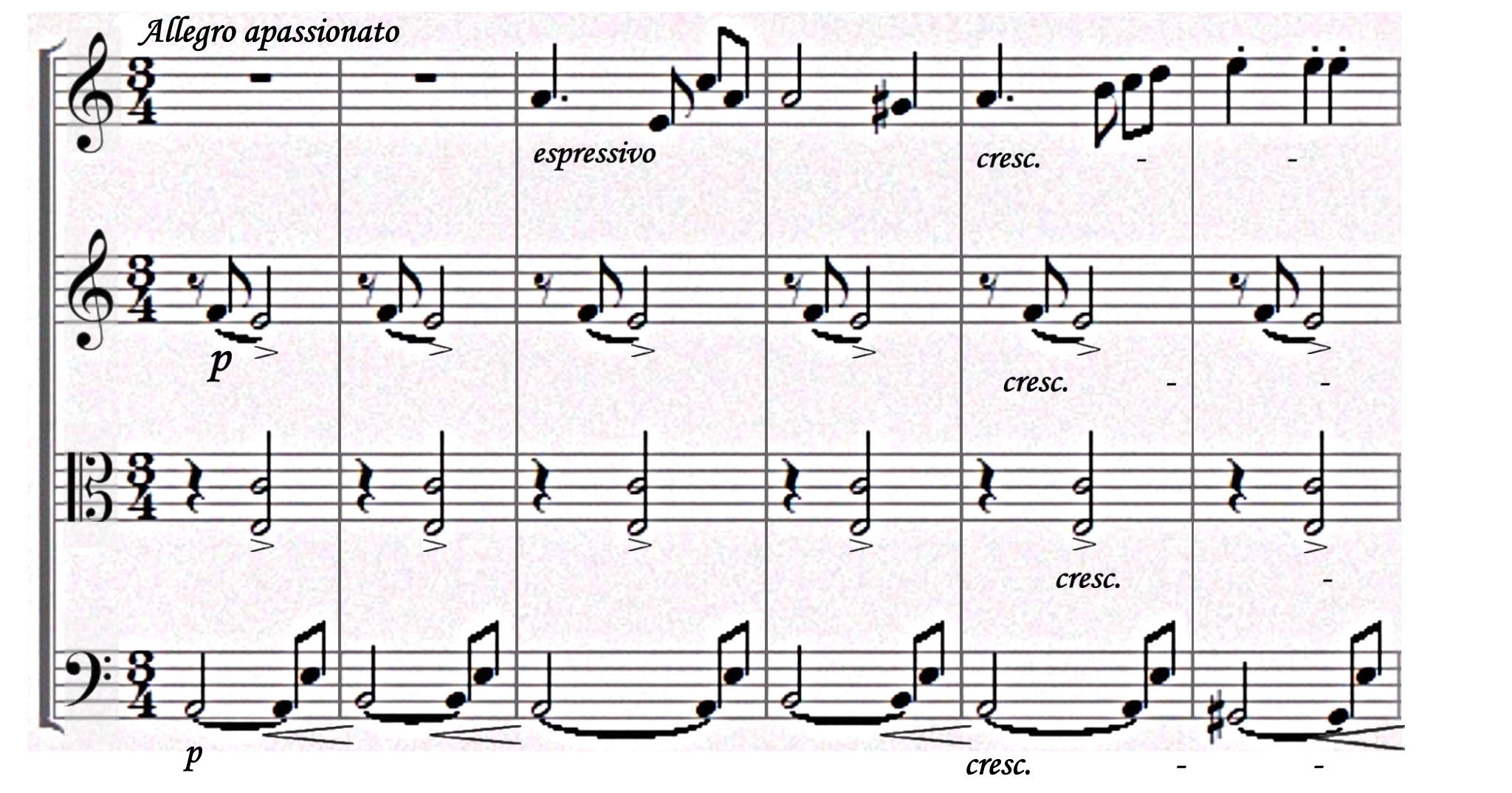 The beginning of the last movement of Beethoven's 15th String-Quartet